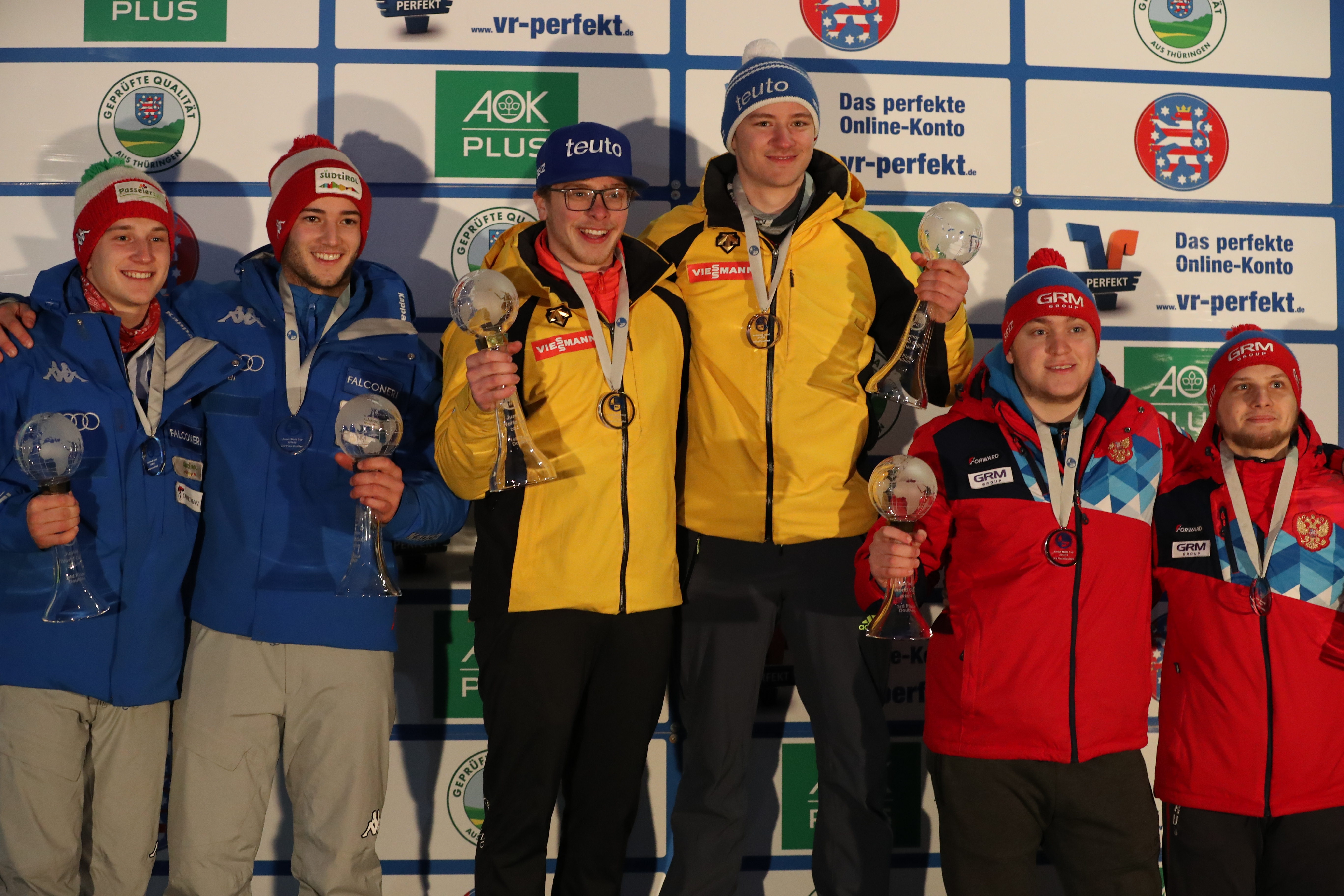 Fridays Victory Ceremonies at the 2018/19 Juniors and Youth A Luge World Cup in Oberhof